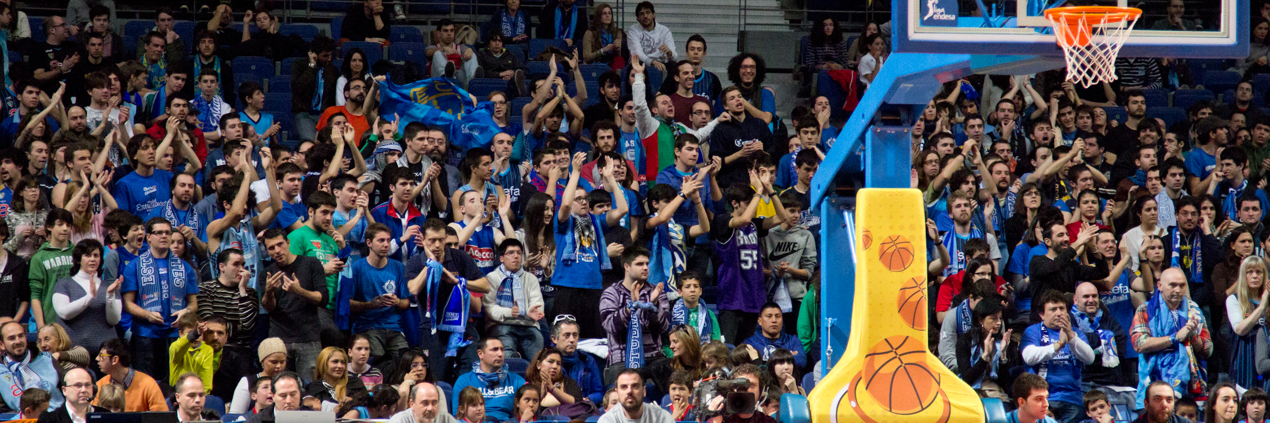 La Demencia ("The Insanity"), the fans of basket Club Estudiantes.